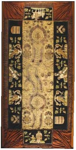 Hearse cloth donated by John Husee, Master, to the Company of Vintners in London, on 14 February 1539. (Byrne, Muriel St. Clare, (ed.) The Lisle Letters, 6 vols, University of Chicago Press, Chicago & London, 1981, vol.1, p.354)